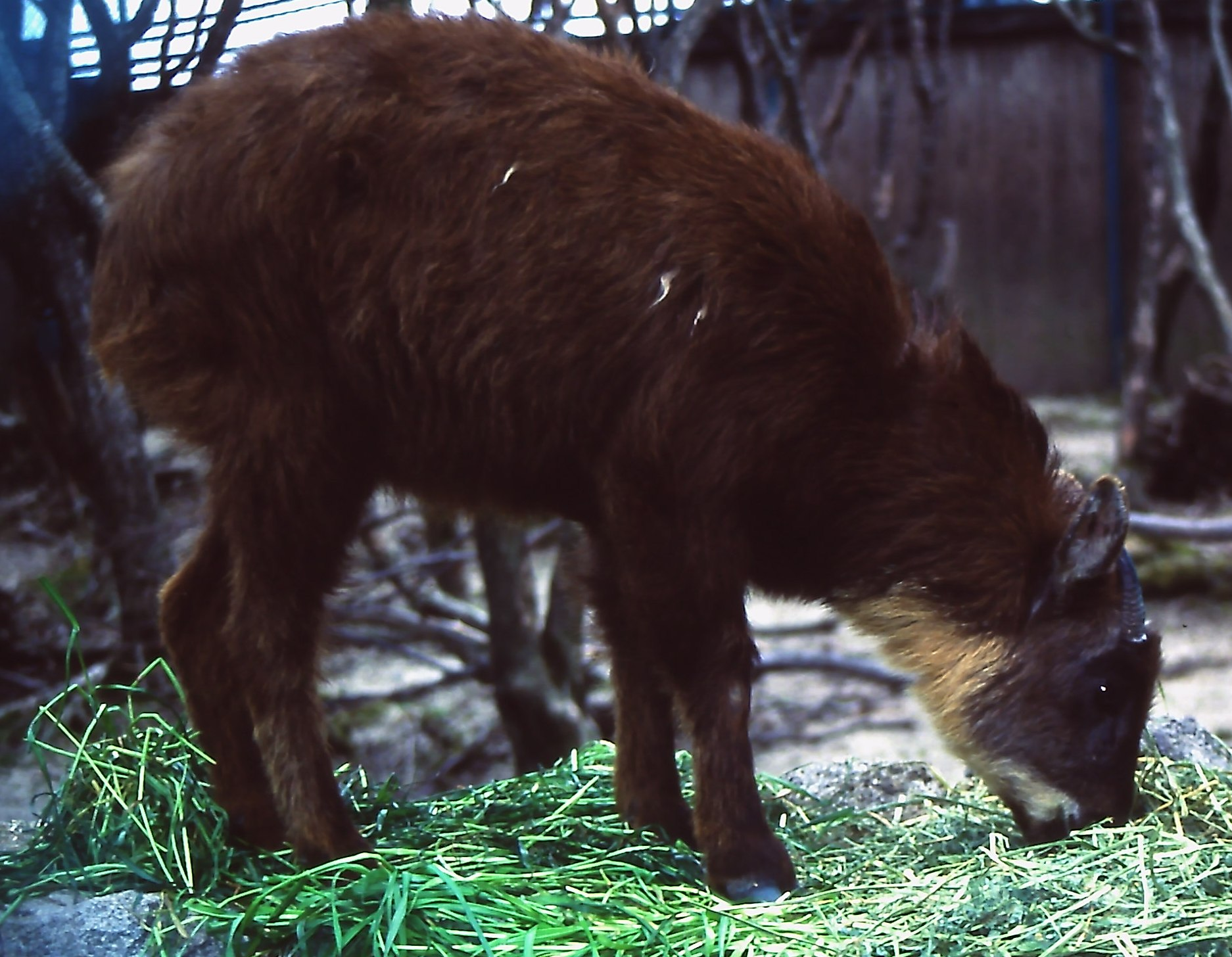 Capricornis swinhoei in Japan Capricornis crispus zoo, Mount Gozaisho